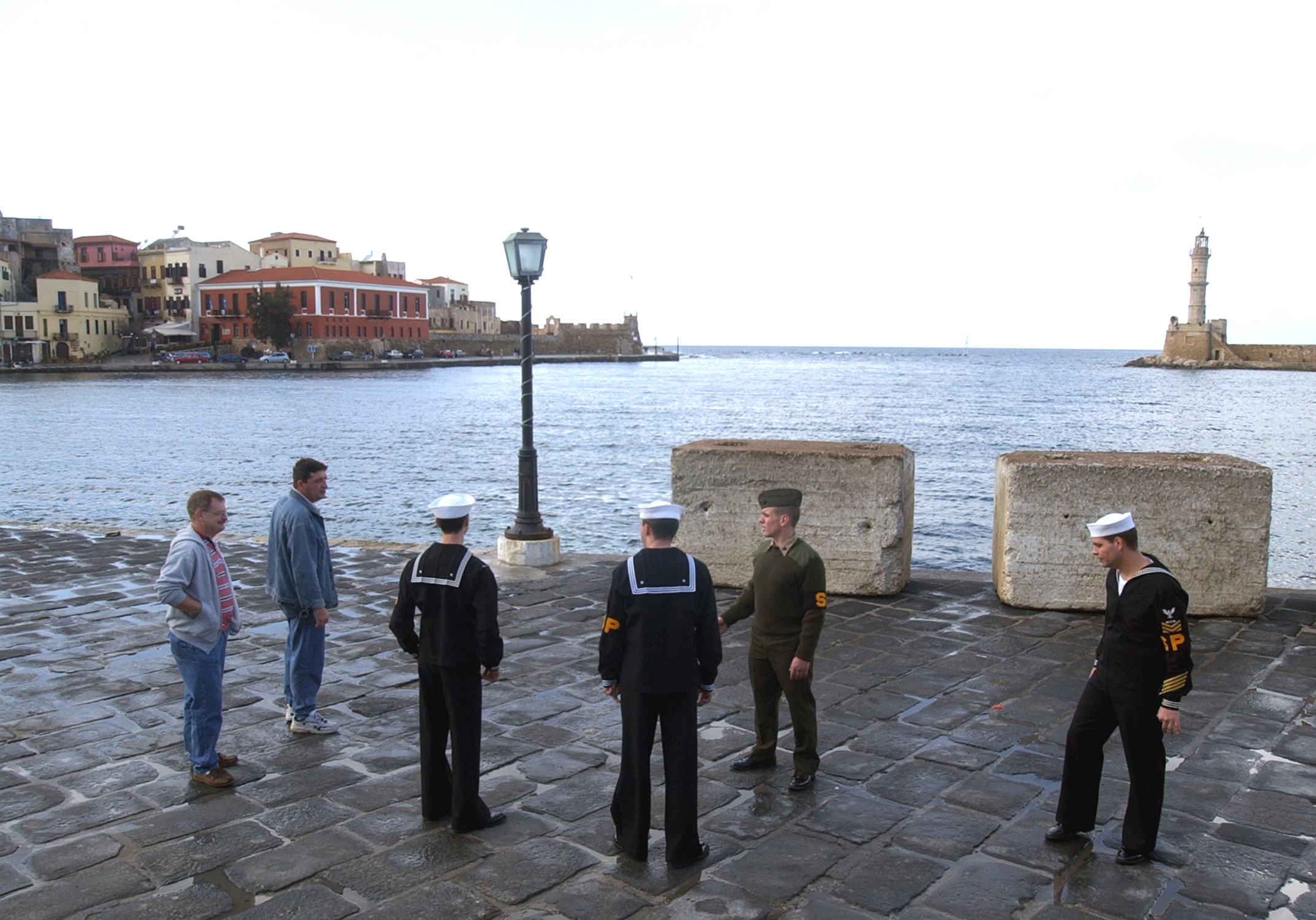 Souda Bay, Crete, Greece (Jan. 1, 2003) -- Harry S. Truman Shore Patrol talk with Sailors on New Year's Day in Chania's old Venetian harbor area during their holiday port visit to this eastern Mediterranean port. Truman and her embarked Carrier Air Wing Three (CVW-3) are on a regularly scheduled six-month deployment conducting combat missions in support of Operation Enduring Freedom. U.S. Navy photo by Paul Farley. (RELEASED)